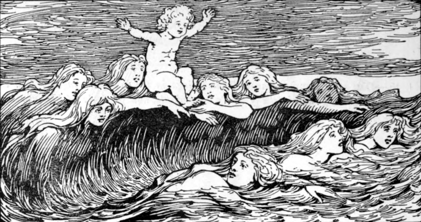 An illustration to Völuspá en skamma. The list of illustrations in the front matter of the book gives this one the title Heimdal and his Nine Mothers.